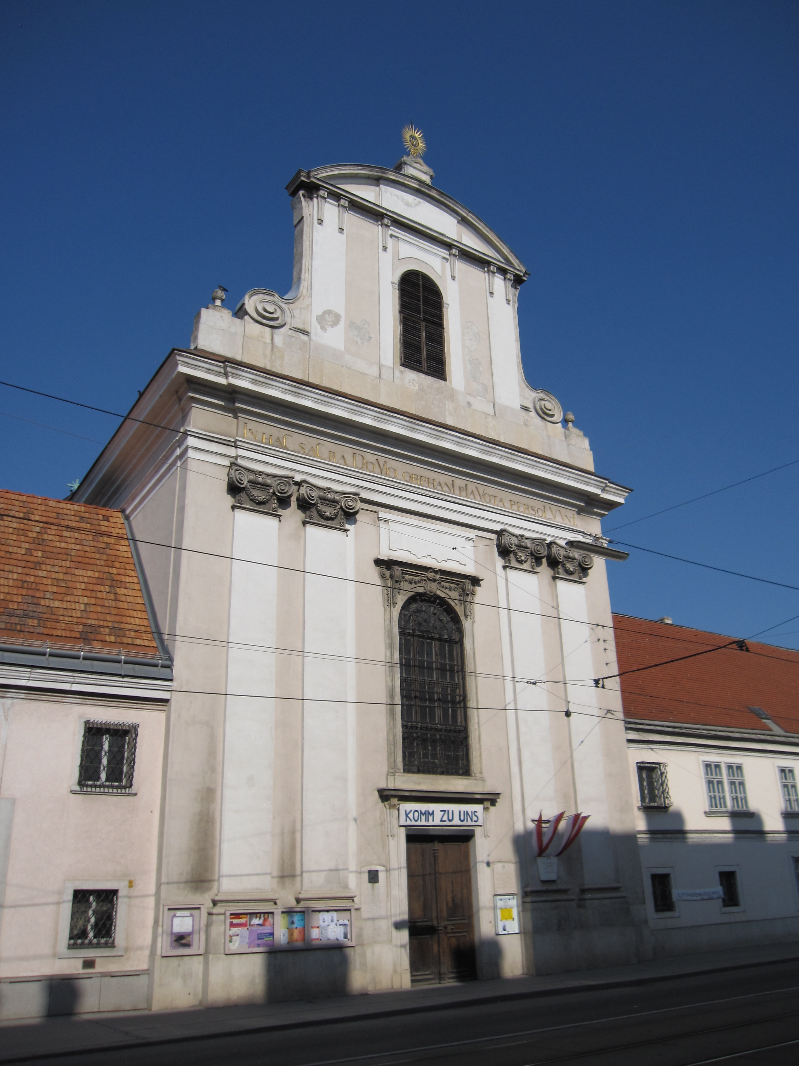 The Orphan's Church (Waisenhauskirche Mariae Geburt) on Rennweg 91 in Landstrasse in Vienna.